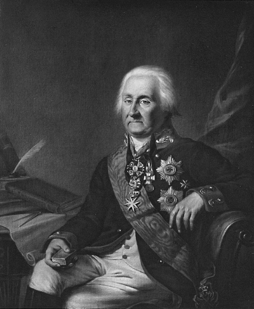 Ju.V. Dolgorukov (1740-1830)